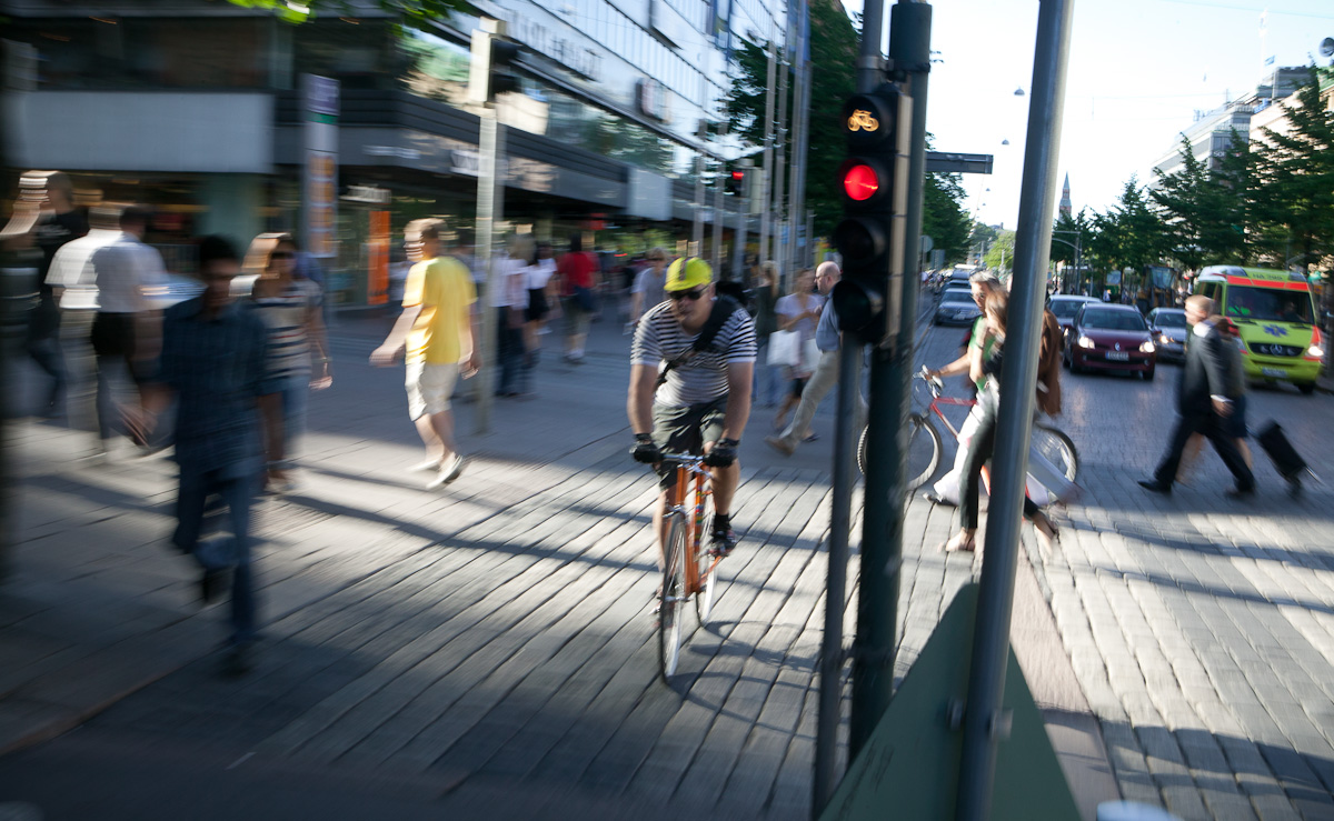 Bicycles in urban traffic of Helsinki.